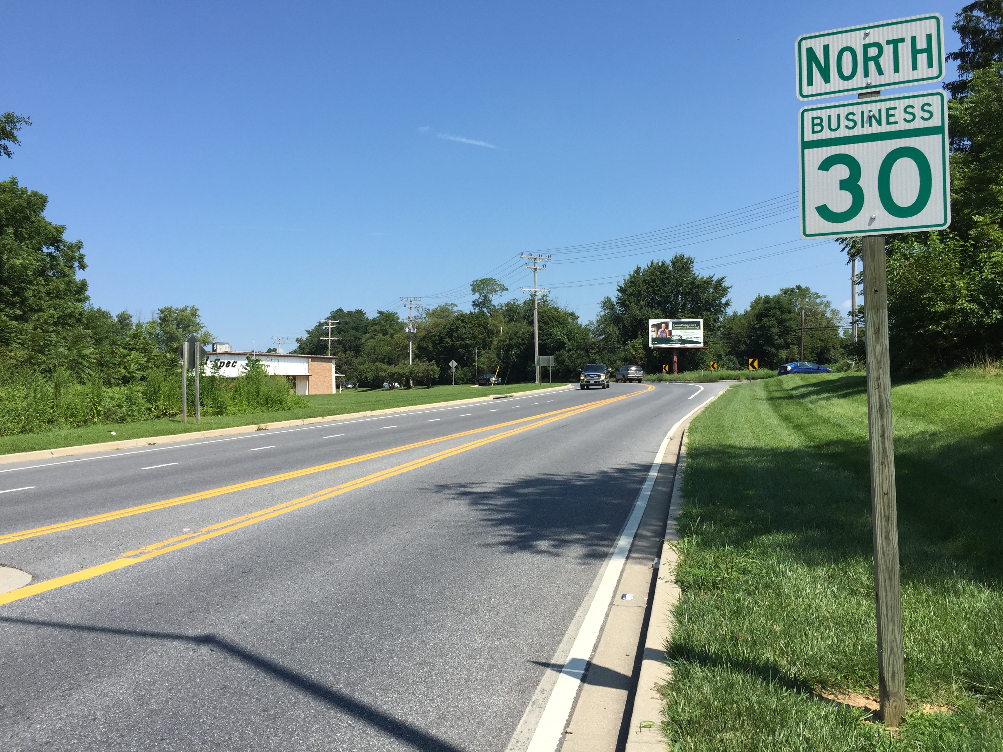 View north along Maryland State Route 30 Business (Main Street) just north of Maryland State Route 30 (Hampstead Bypass) just south of Hampstead in northeastern Carroll County, Maryland